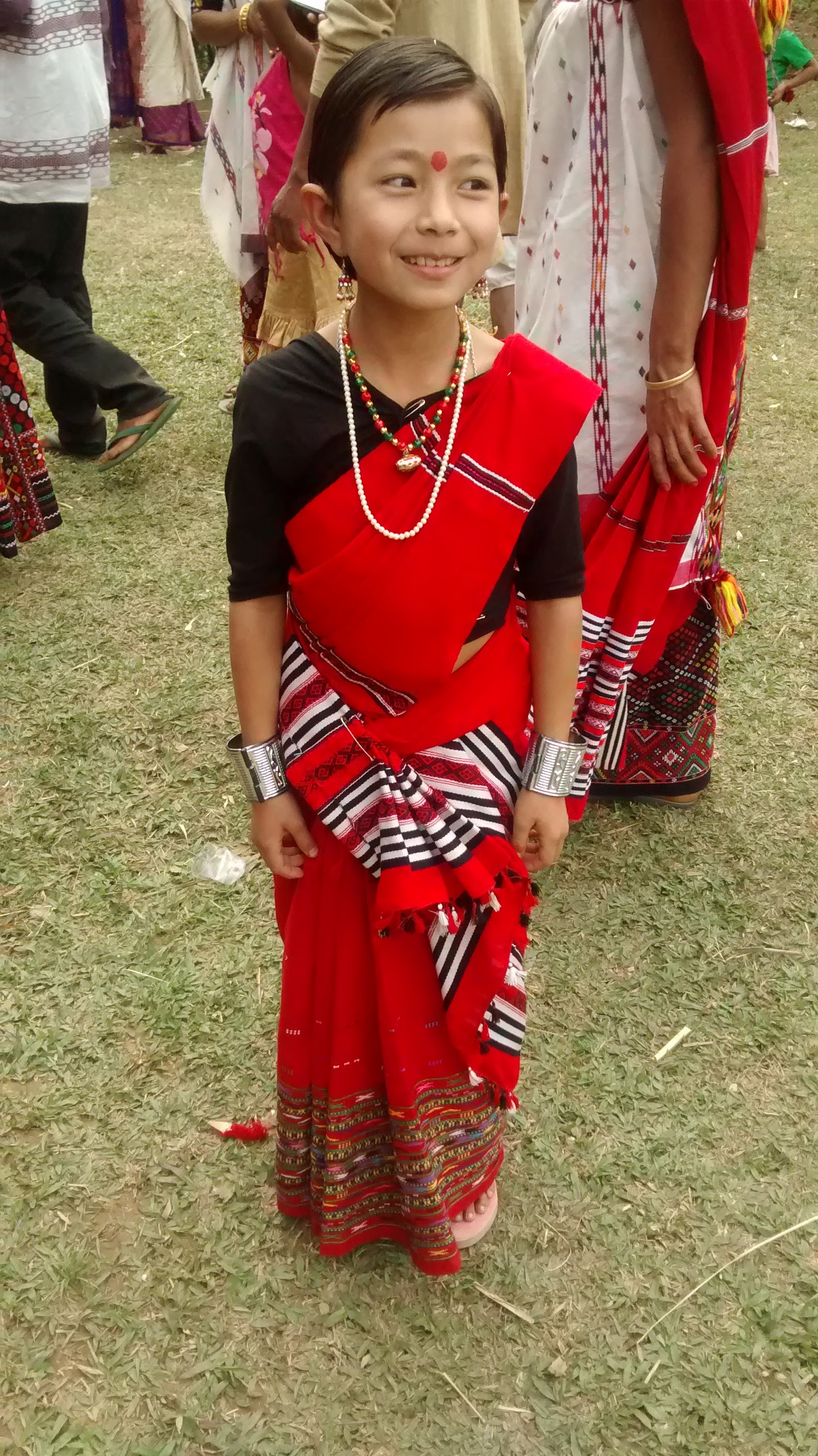 In this picture we see a cute little Mising girl, wearing their traditional dress Ribi Gaseng This photo has been taken in the country: India